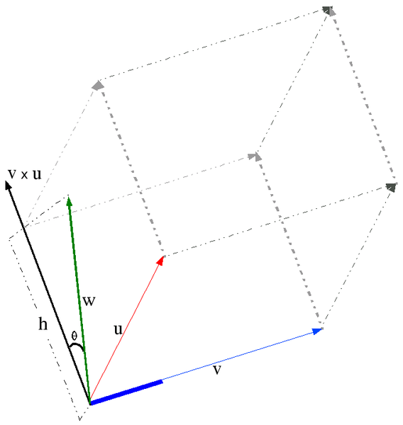 Prod misto